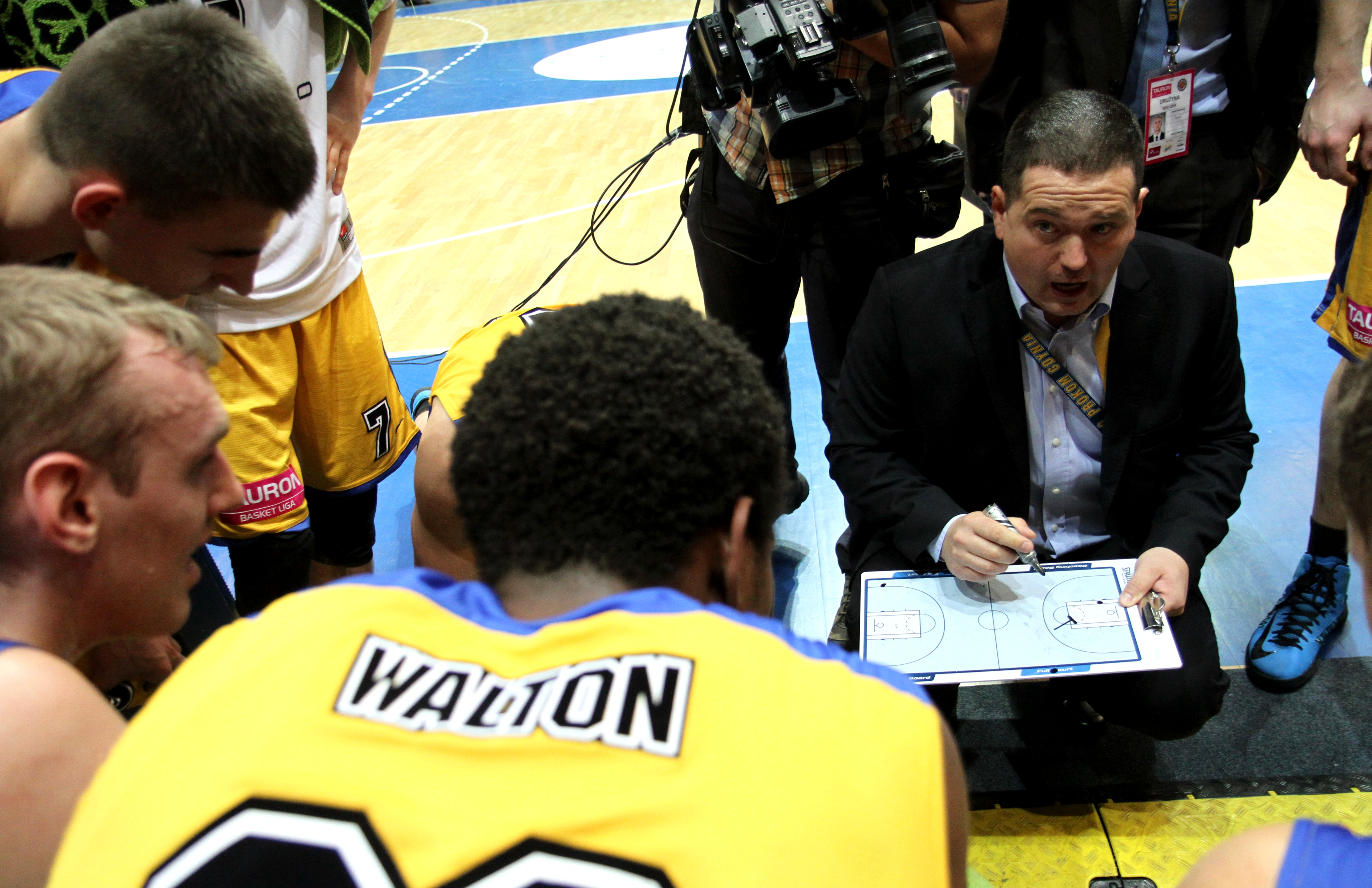 David Dedek Asseco Gdynia